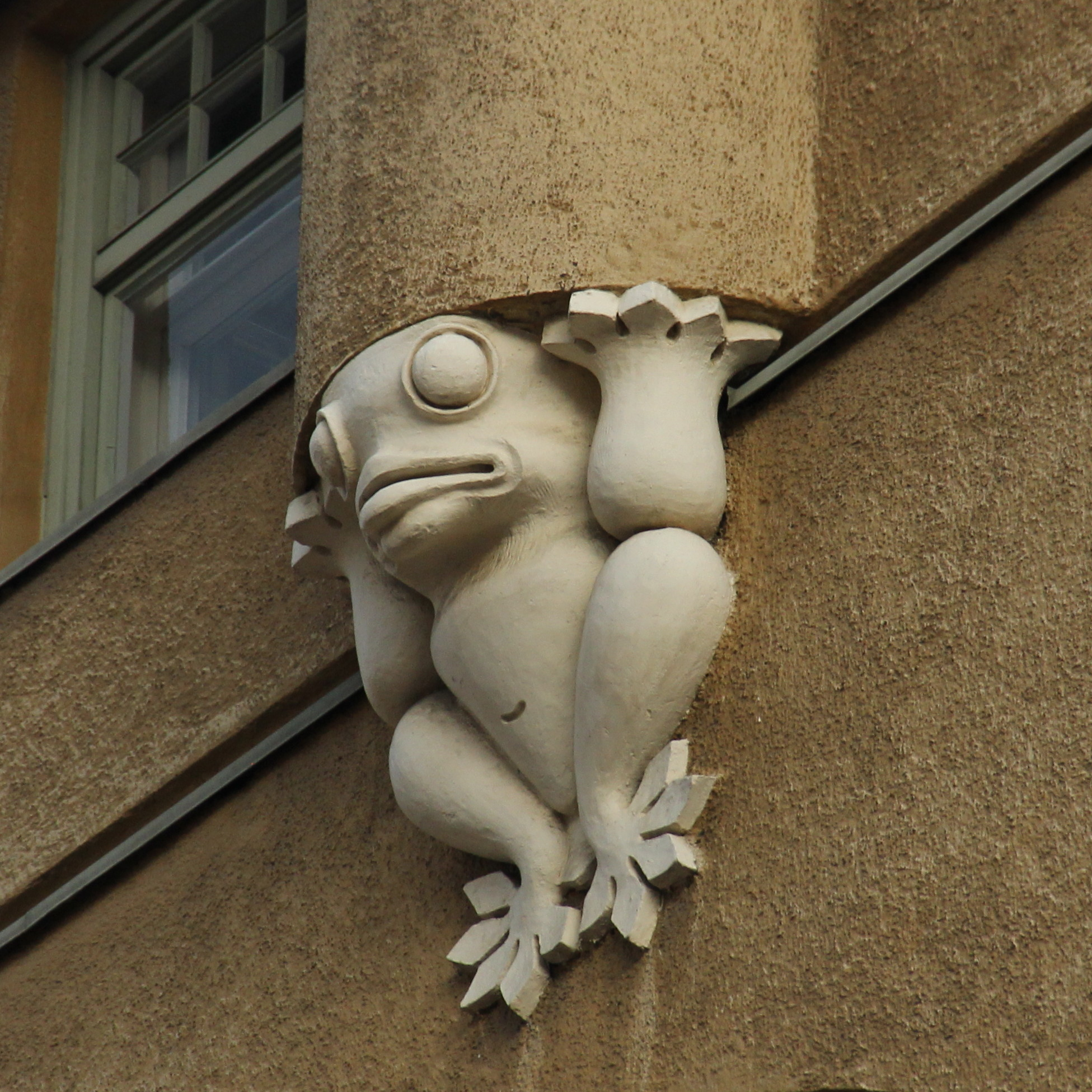 Argronomitalo, former Lääkäreiden talo, Kaartinkaupunki, Helsinki, Finland. - Designed by Gesellius, Lindgren, Saarinen Architects. Completed in 1901. - A frog statue supporting a pilaster, corner of Fabianinkatu and Pohjoinen Makasiinikatu.